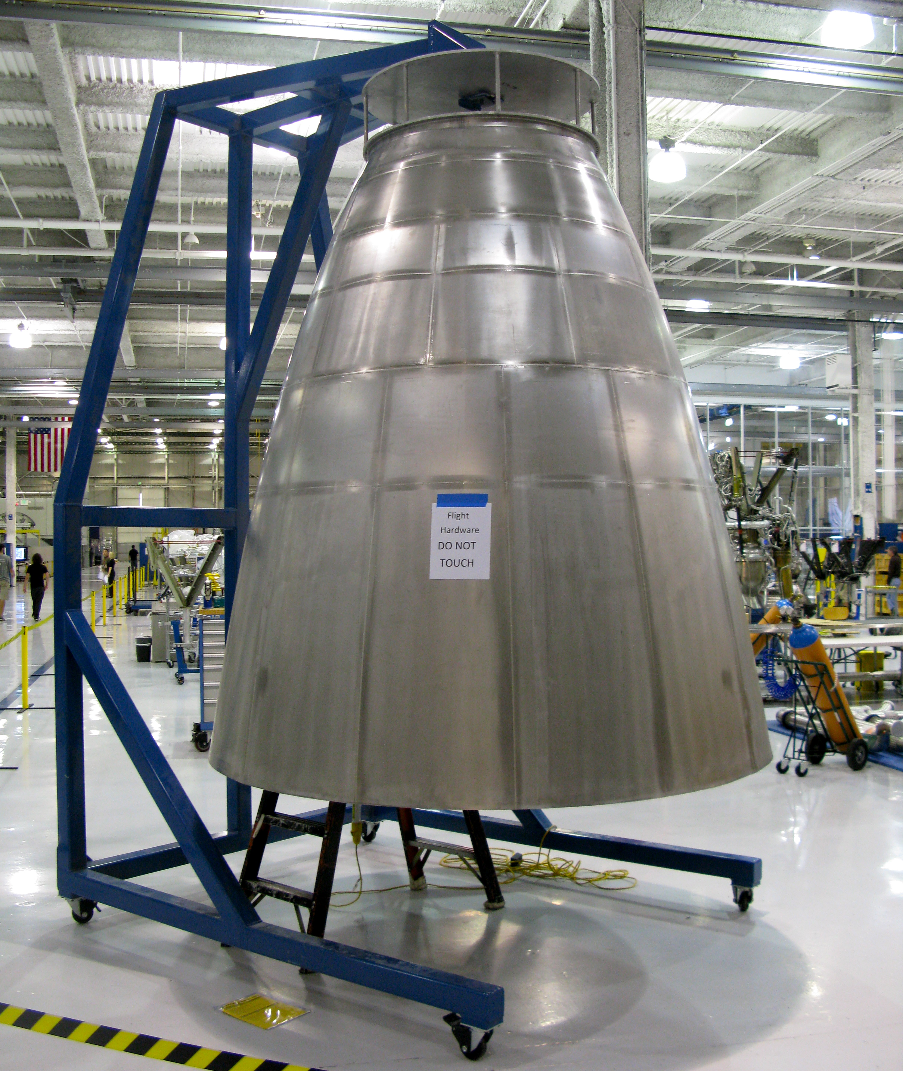 The nozzle of the rocket motor Merlin used on the Falcon 9 second stage. Made of niobium, weakened by touch. Upper stage nozzles are much bigger than the comparable booster as they operate in near vacuum where the plume expands against less atmospheric pressure.